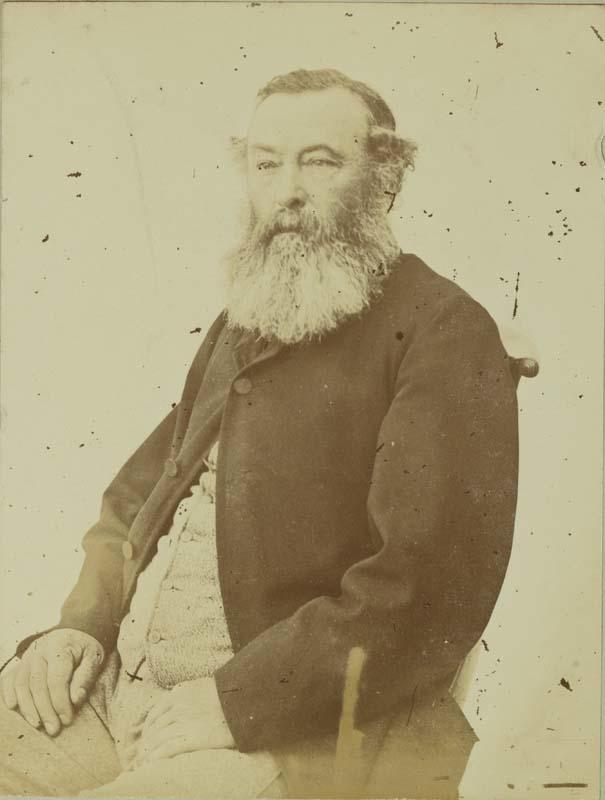 Isaac Cookson as photographed by Alfred Charles Barker